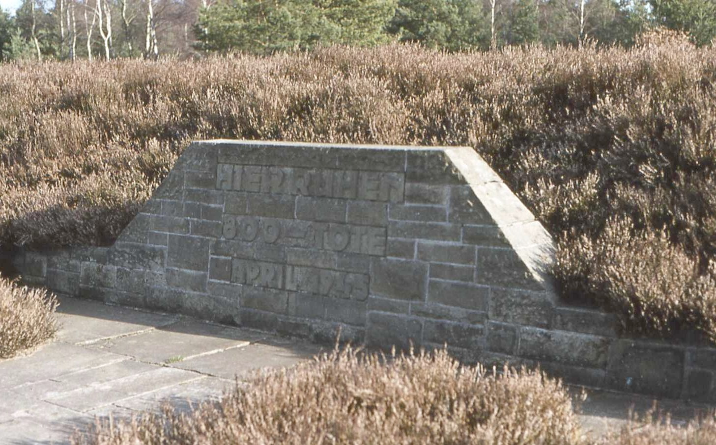 Mass grave at former concentrationcamp Bergen-Belsen, Germany